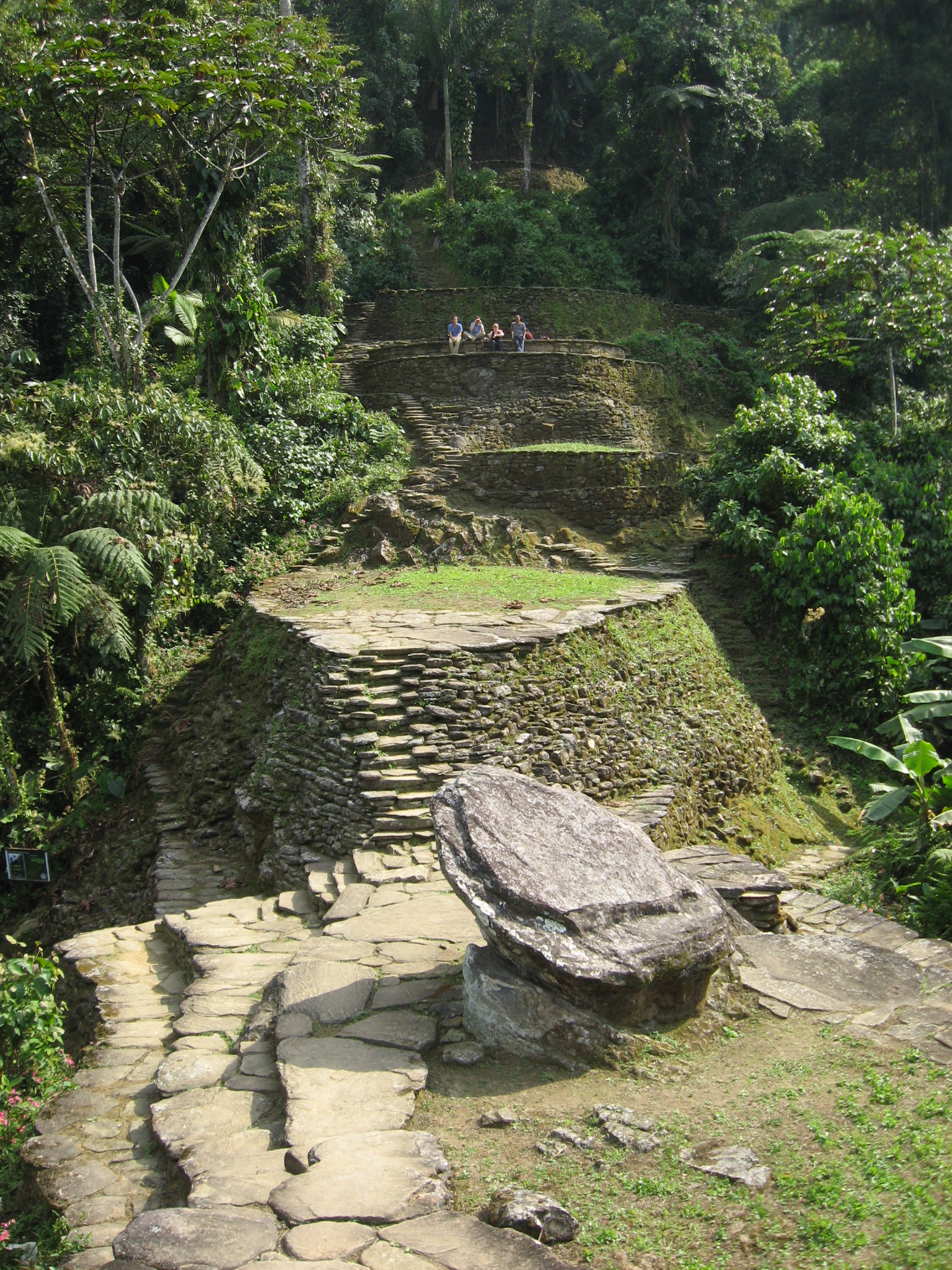 View of the center area of Ciudad Perdida ("Lost City") in north-eastern Colombia.